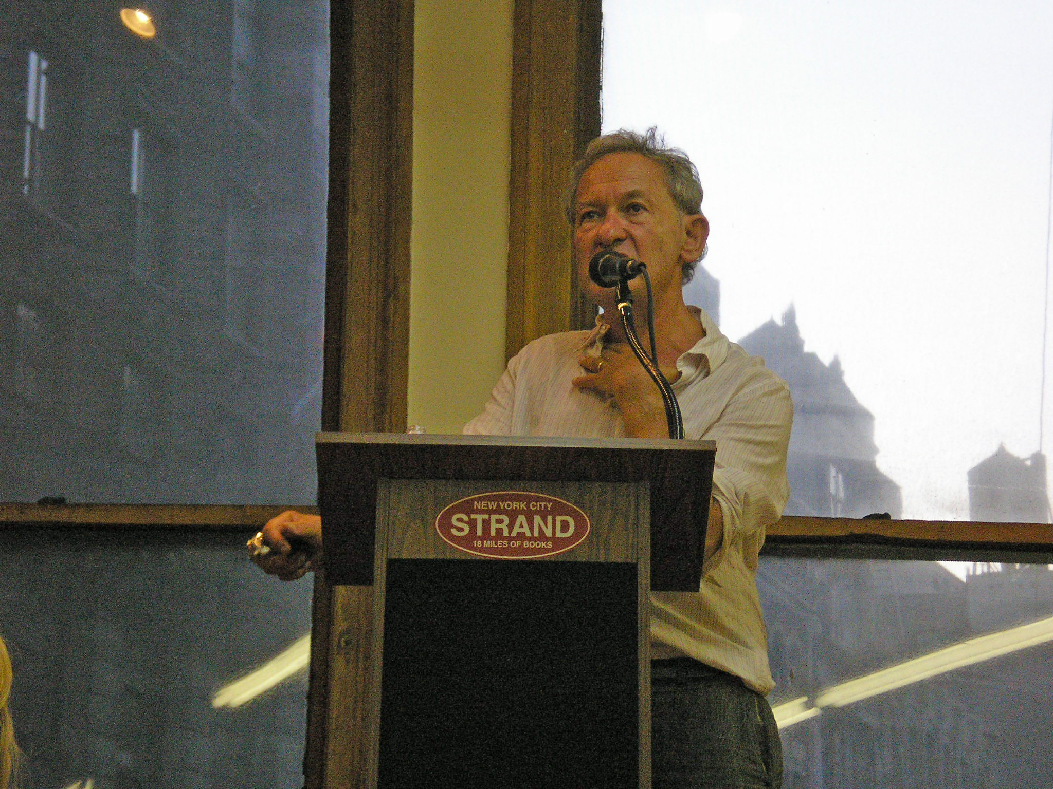 Simon Schama at The Strand by David Shankbone